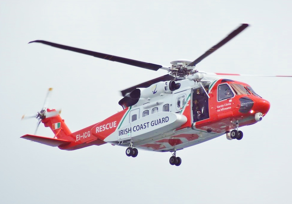 Sikorsky S92A (EI-ICG) - Irish Coast Guard (Rescue 115)